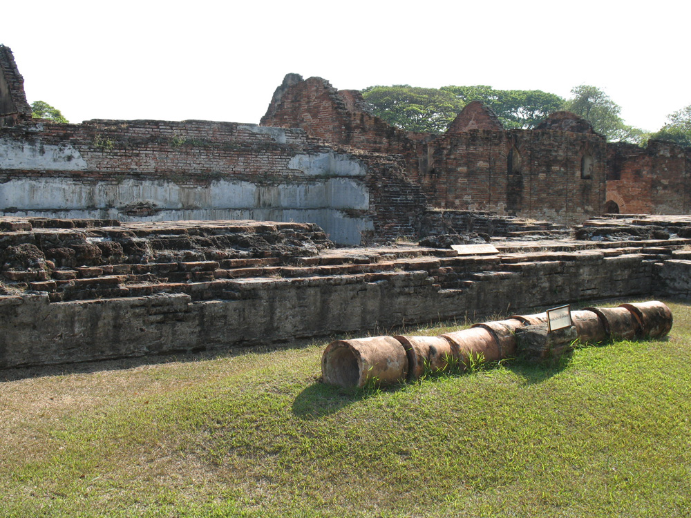 Water Tank, King Narai's Palace, Lopburi Province.